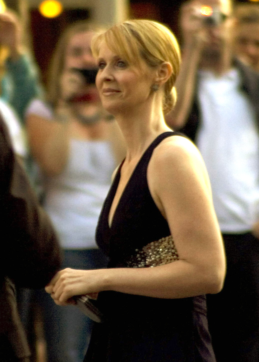 Cynthia Nixon - Premiere "Sex and the City", Berlin